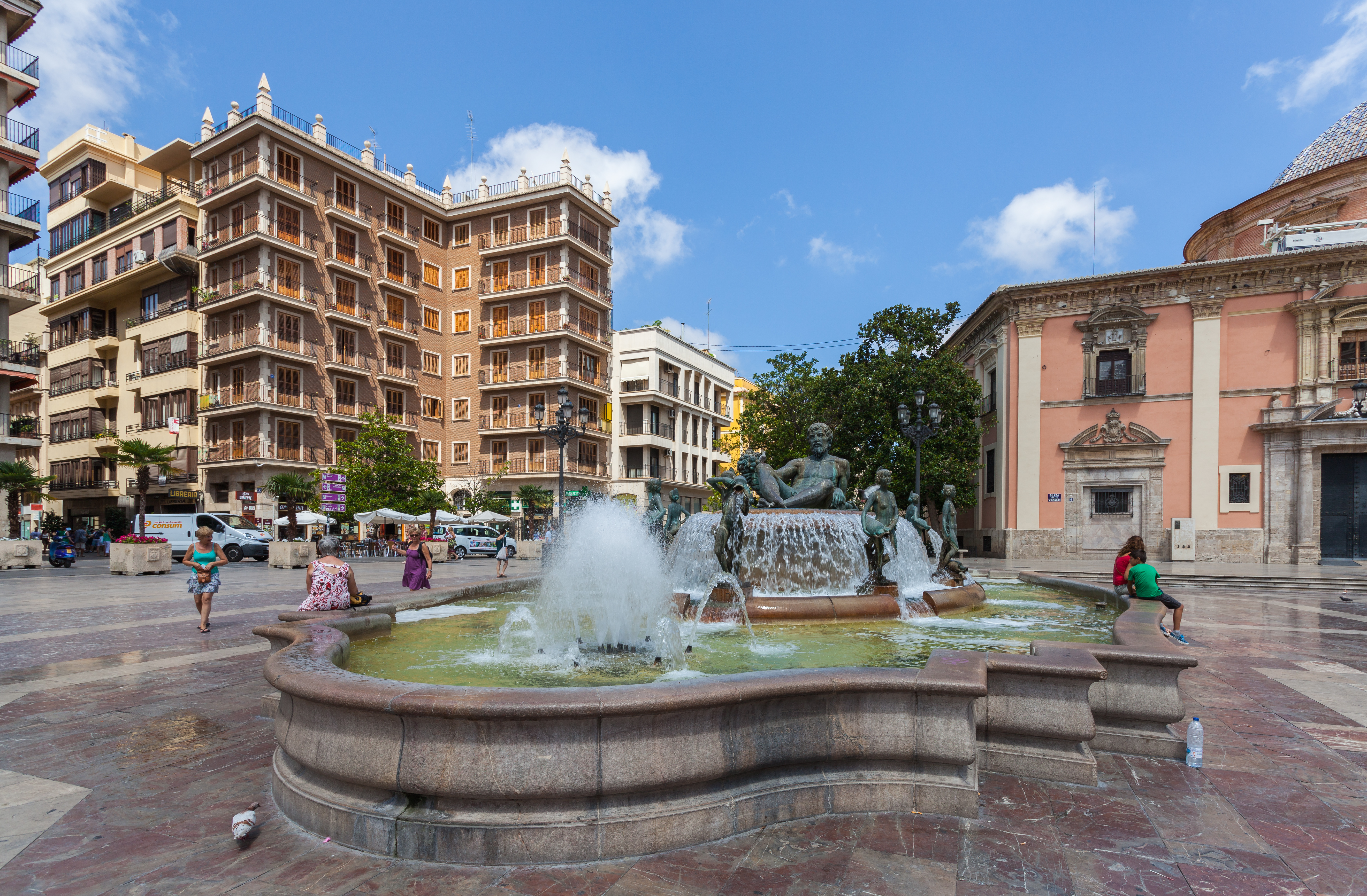 Fountain to the Turia river, Valencia, Spain